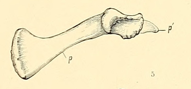 Laosaurus celer pubis